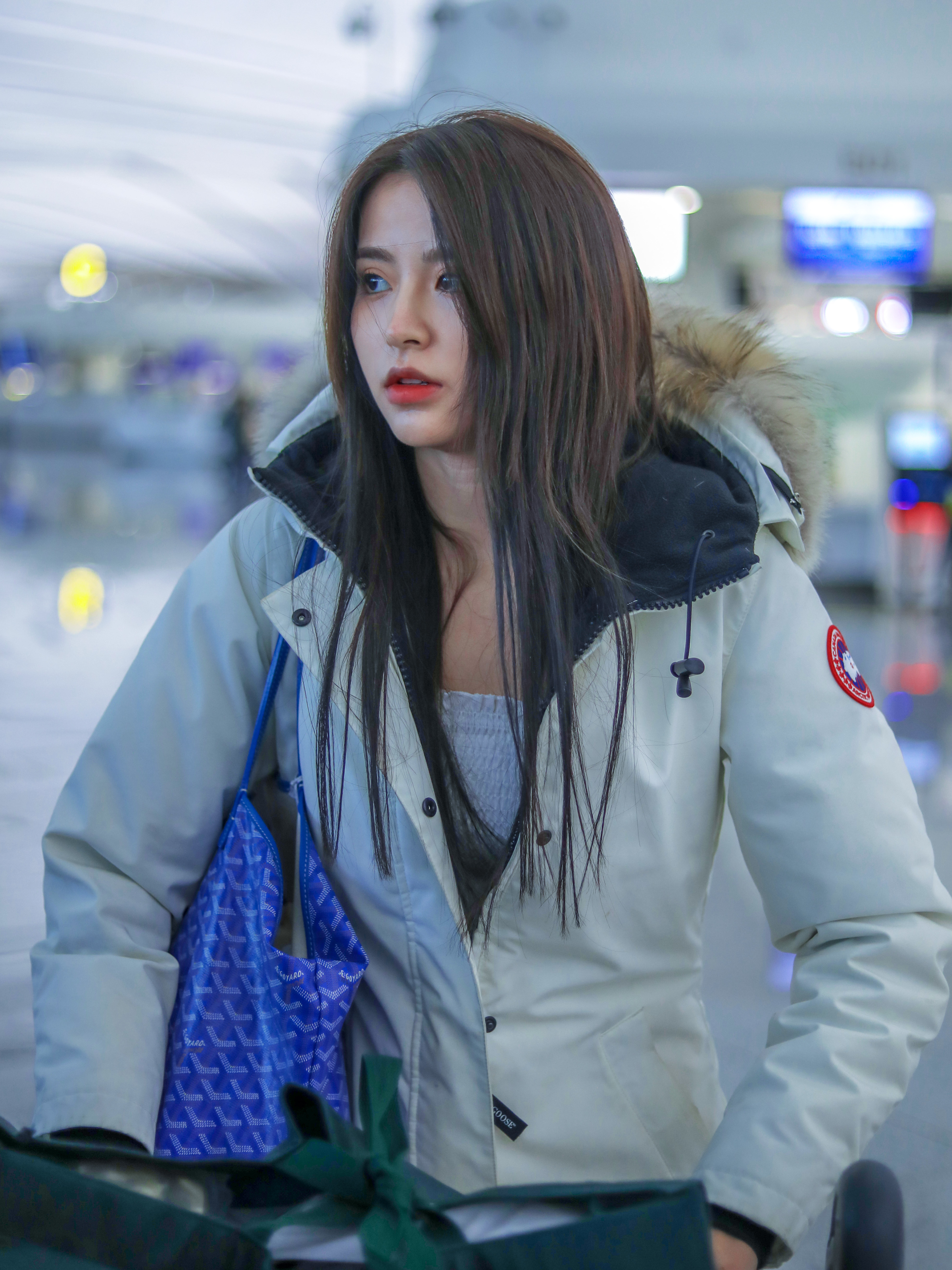 Aria Jin (Airis Jin) at Beijing Daxing International Airport